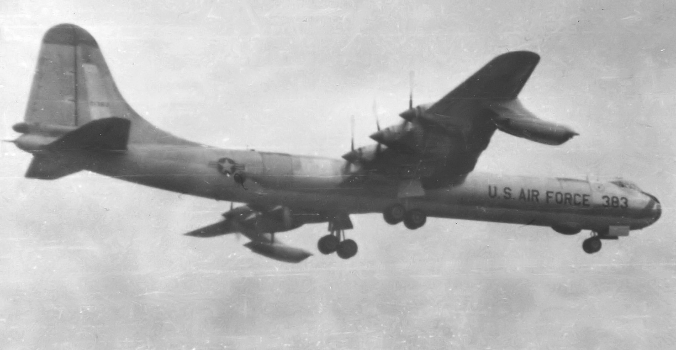 Convair RB-36H-55-CF Peacemaker 52-1383 of Strategic Air Command landing at RAF Burtonwood, Lancashire